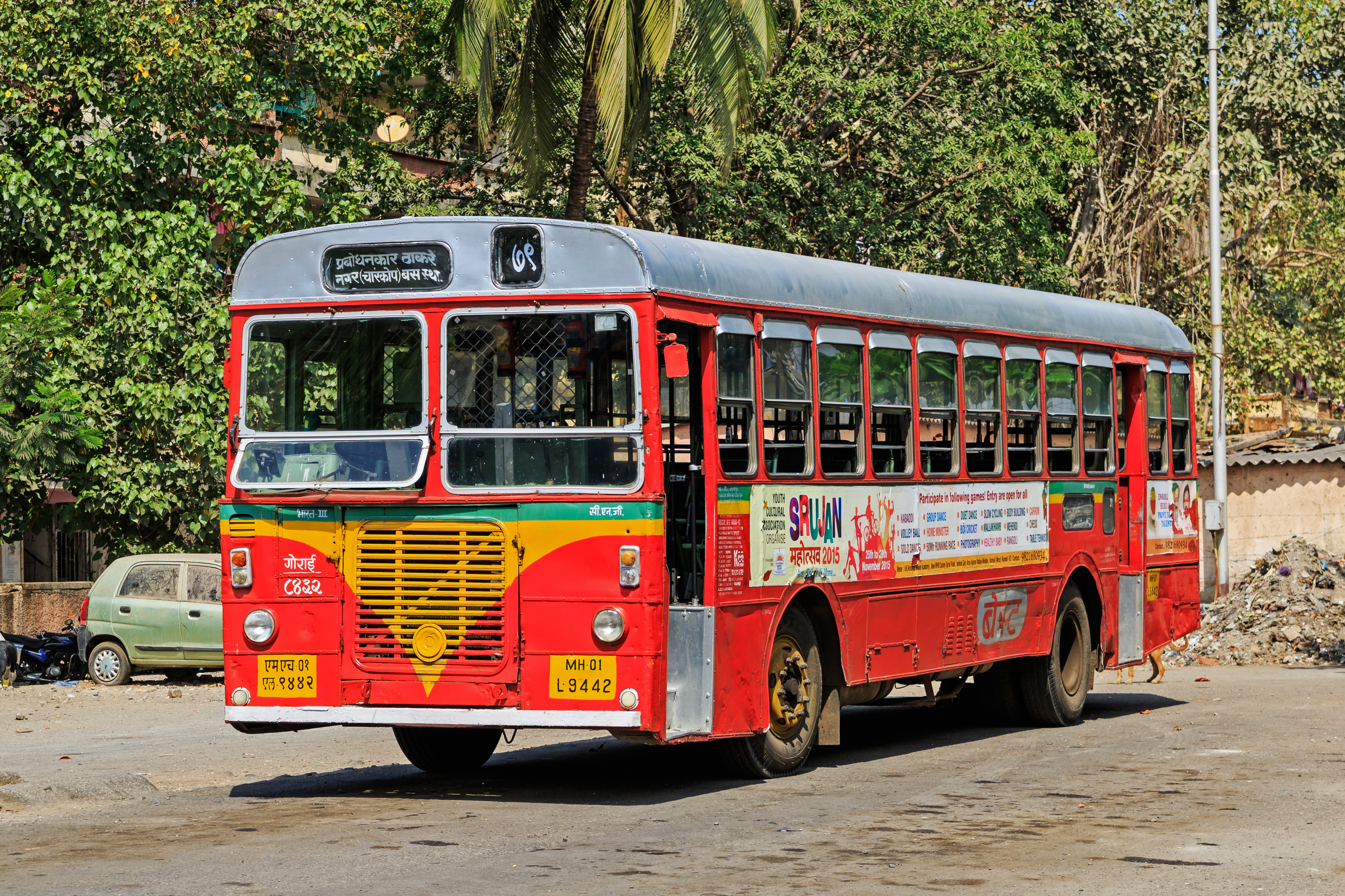 Bus at Raheja Hospital Marg near Mahim Junction in Mumbai, India